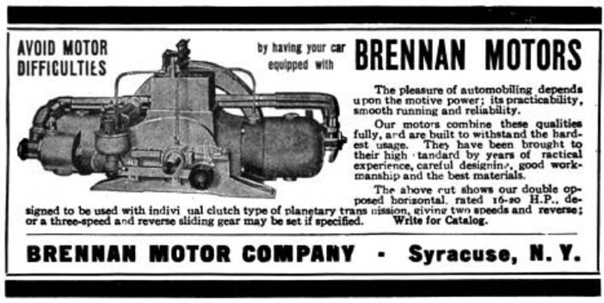 Brennan Motor Company - Syracuse, New York - 1906